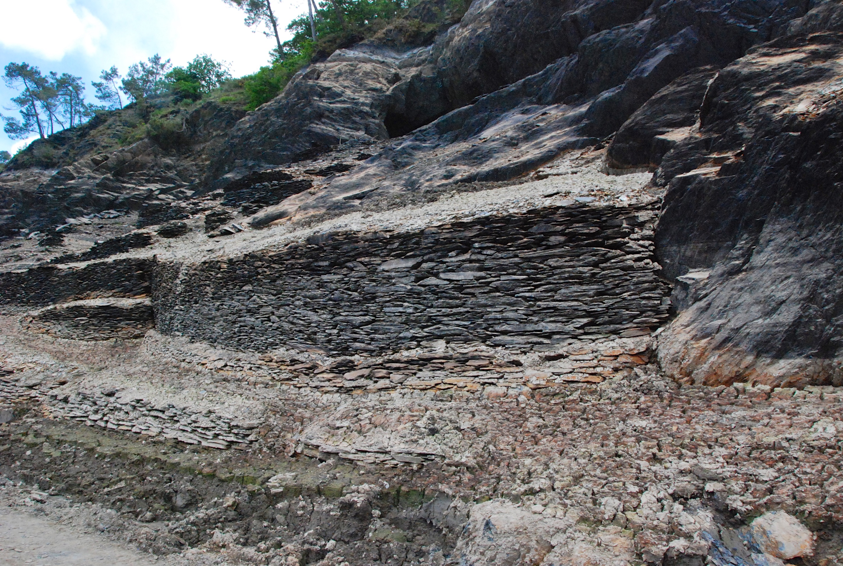 Anciennes carrières d'ardoise en amont de Beau Rivage